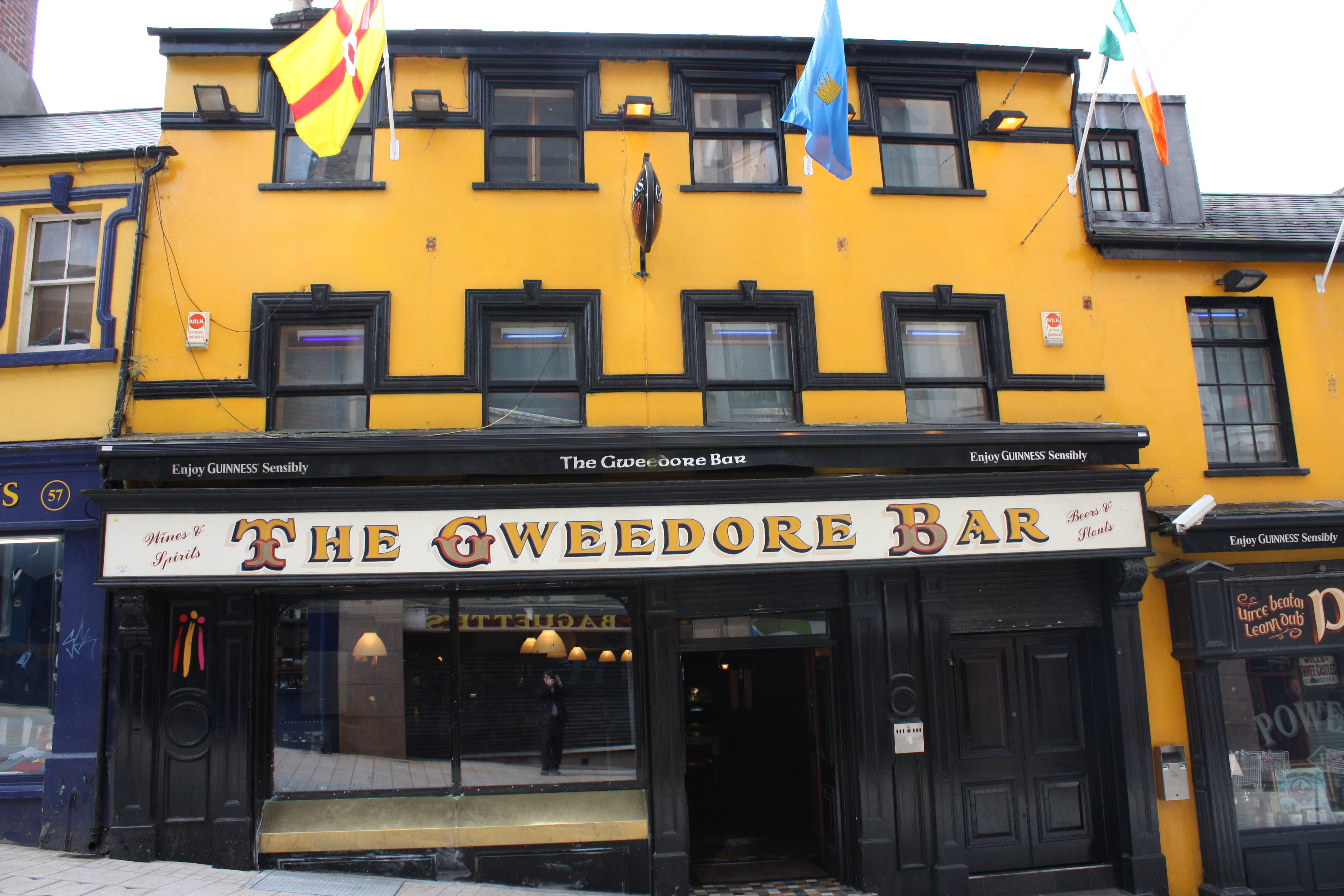 Peadar O'Donnells and Gweedore Bar, Waterloo Street, Derry, County Londonderry, Northern Ireland, September 2010